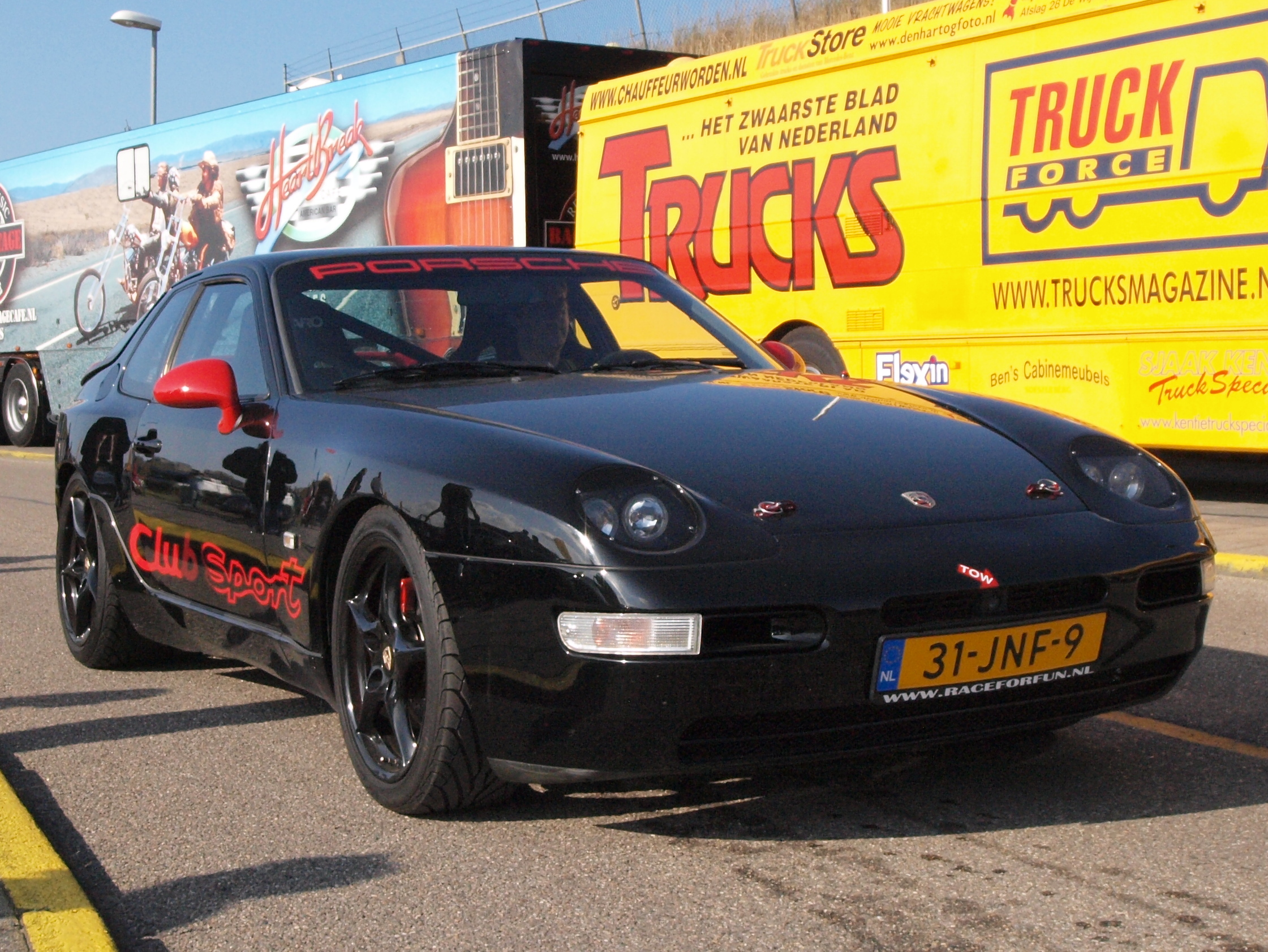 Photographed at the Nationaal Oldtimer Festival Zandvoort 2009, The Netherlands. OLYMPUS DIGITAL CAMERA